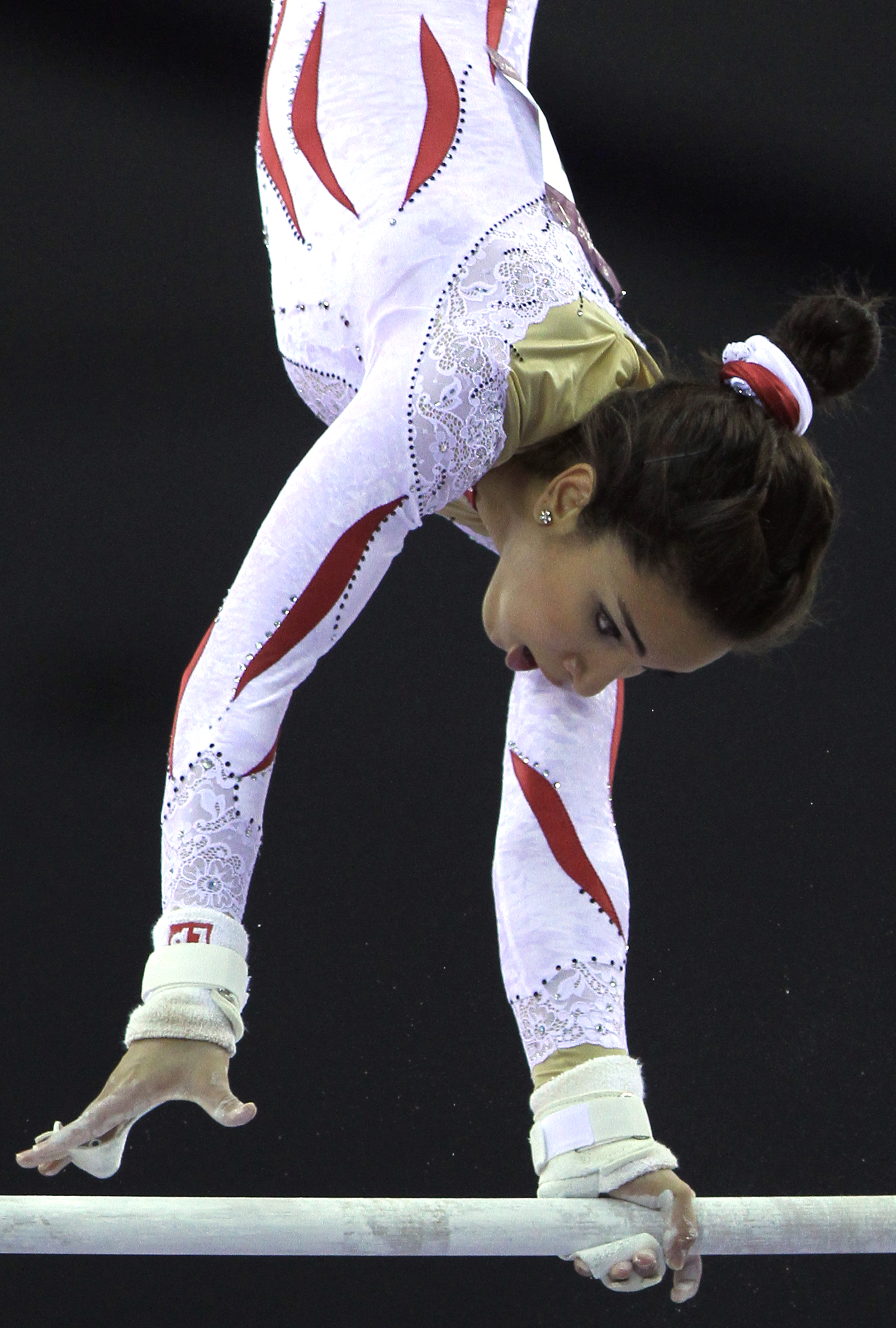 Qatari gymnast Shaden Wahdan in action during the Doha Arab Games at the ASPIRE Academy.